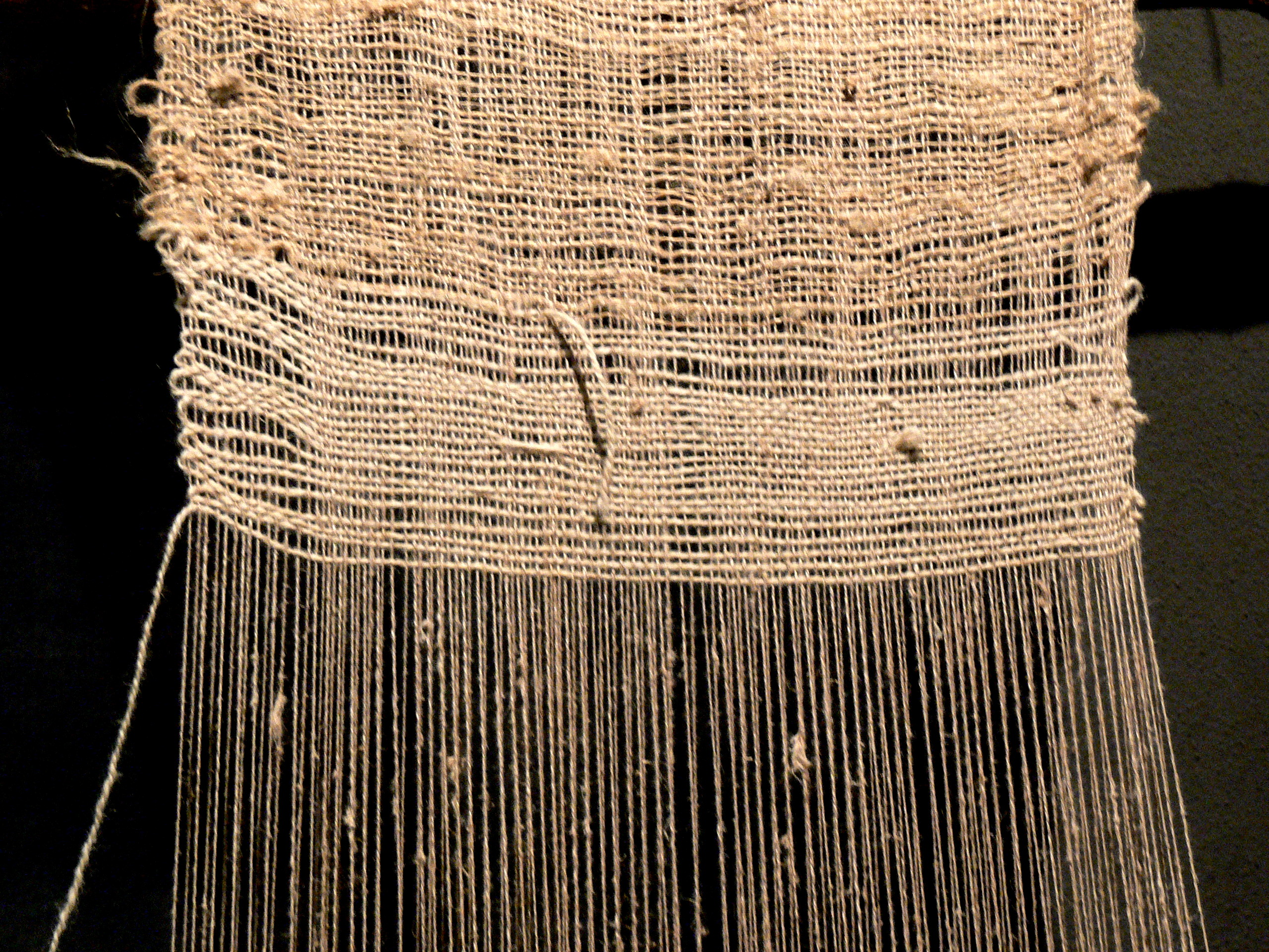 Museum Quintana. Urnfield culture ( 1100-800 BC ): Reconstruction of a loom ( detail )